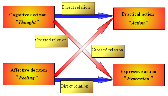 Based on information from Tapu CS, Hypostatic Personality: Psychopathology of Doing and Being Made, Premier, 2001.